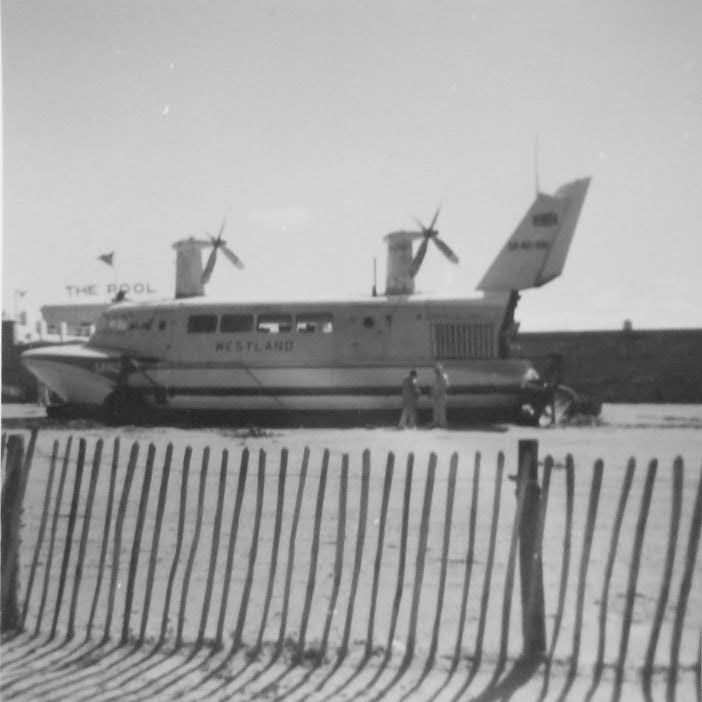 Passenger hovercraft at Weston-super-Mare beach in August 1963 - original on 120 film, 3.5x3.5 print